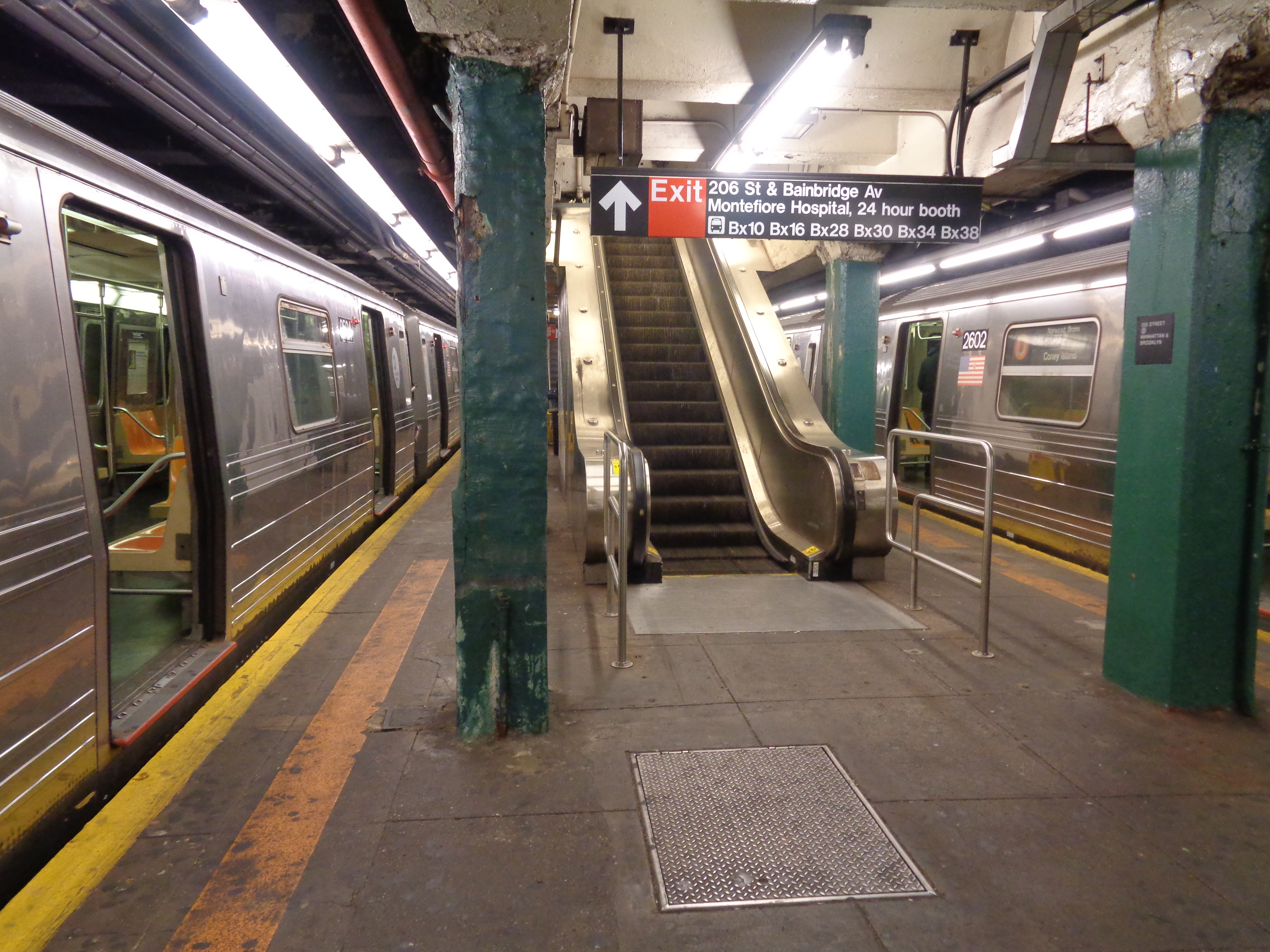 The escalator at the western end of the 205th Street station platform in the Bronx.